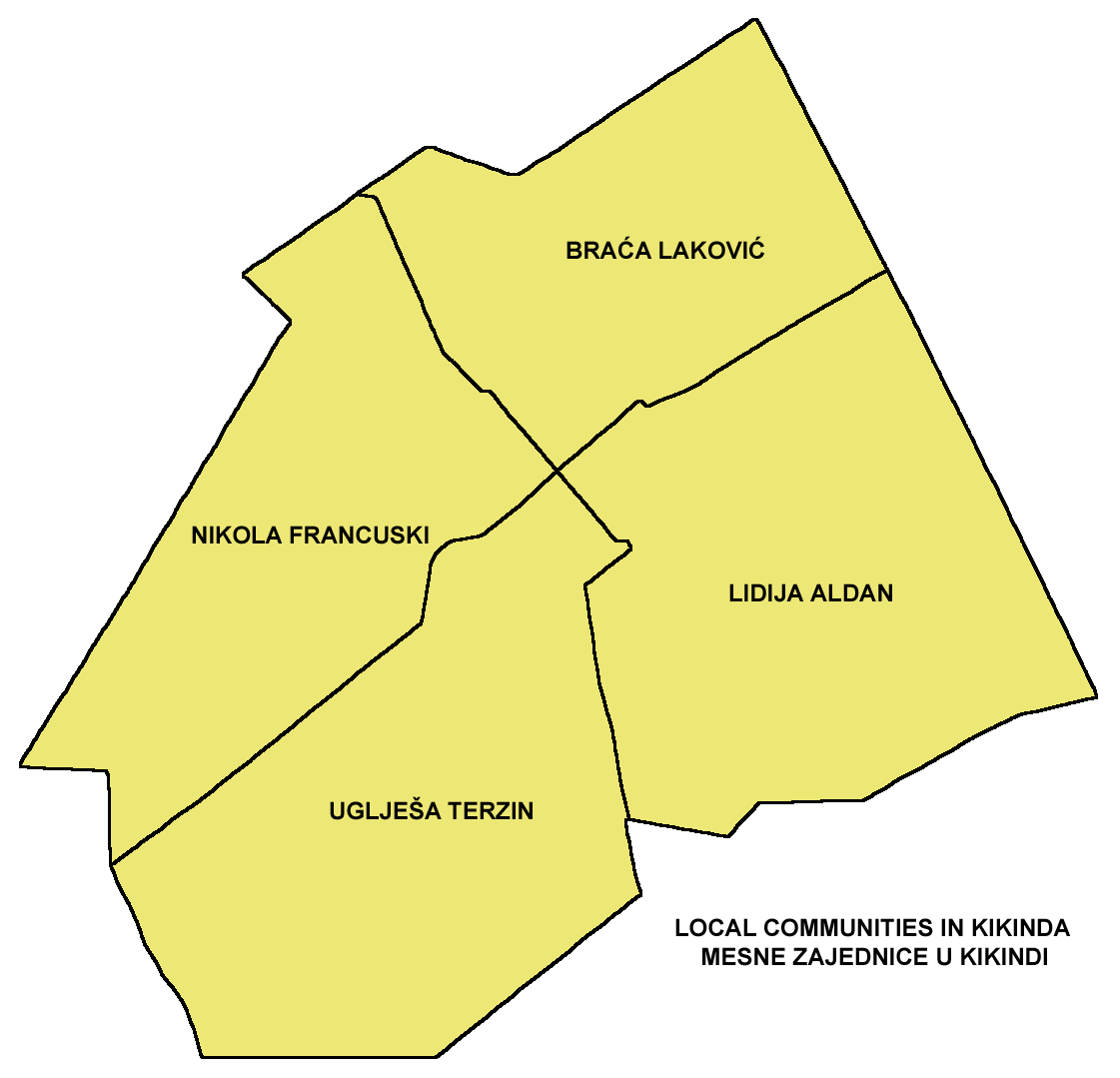 Former local communities in Kikinda.